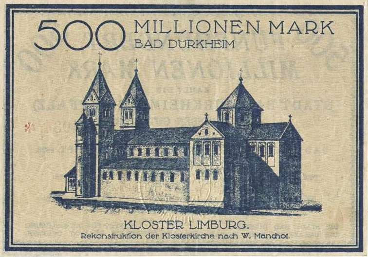 Kloster Limburg Bad Dürkheim, Rekonstruktionszeichnung der romanischen Kirche, von Wilhelm Manchot (1844-1912), auf Geldschein der Stadt Bad Dürkheim, 1923